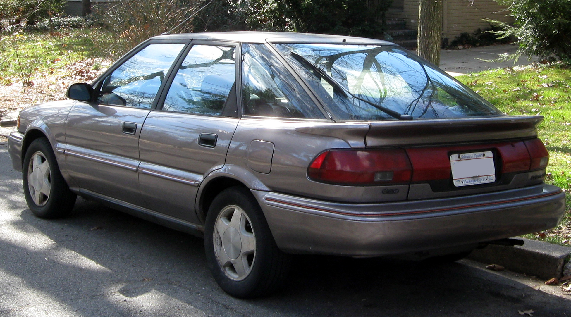 Geo Prizm photographed in Washington, D.C., USA.